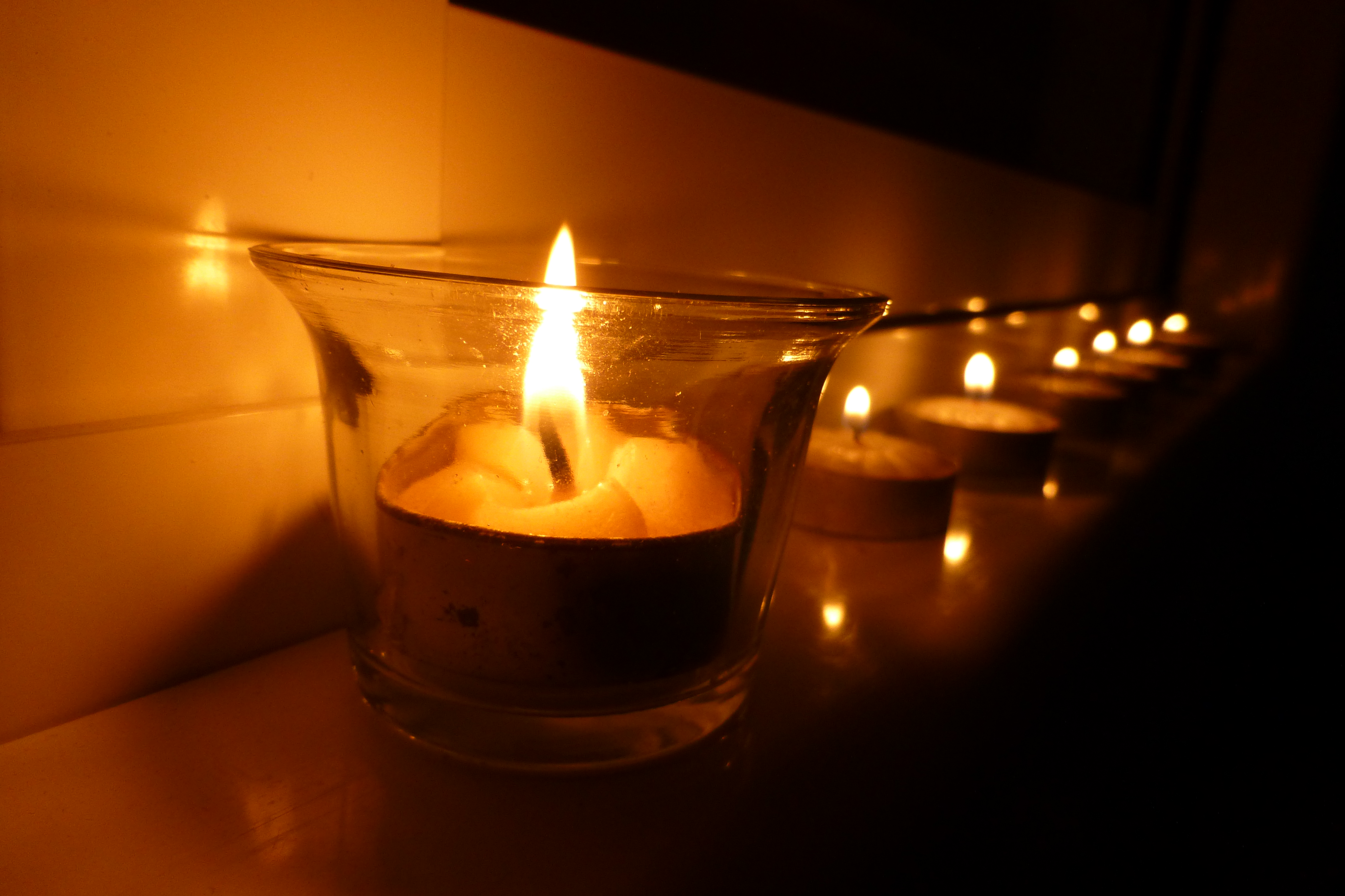 Hanukkah candles